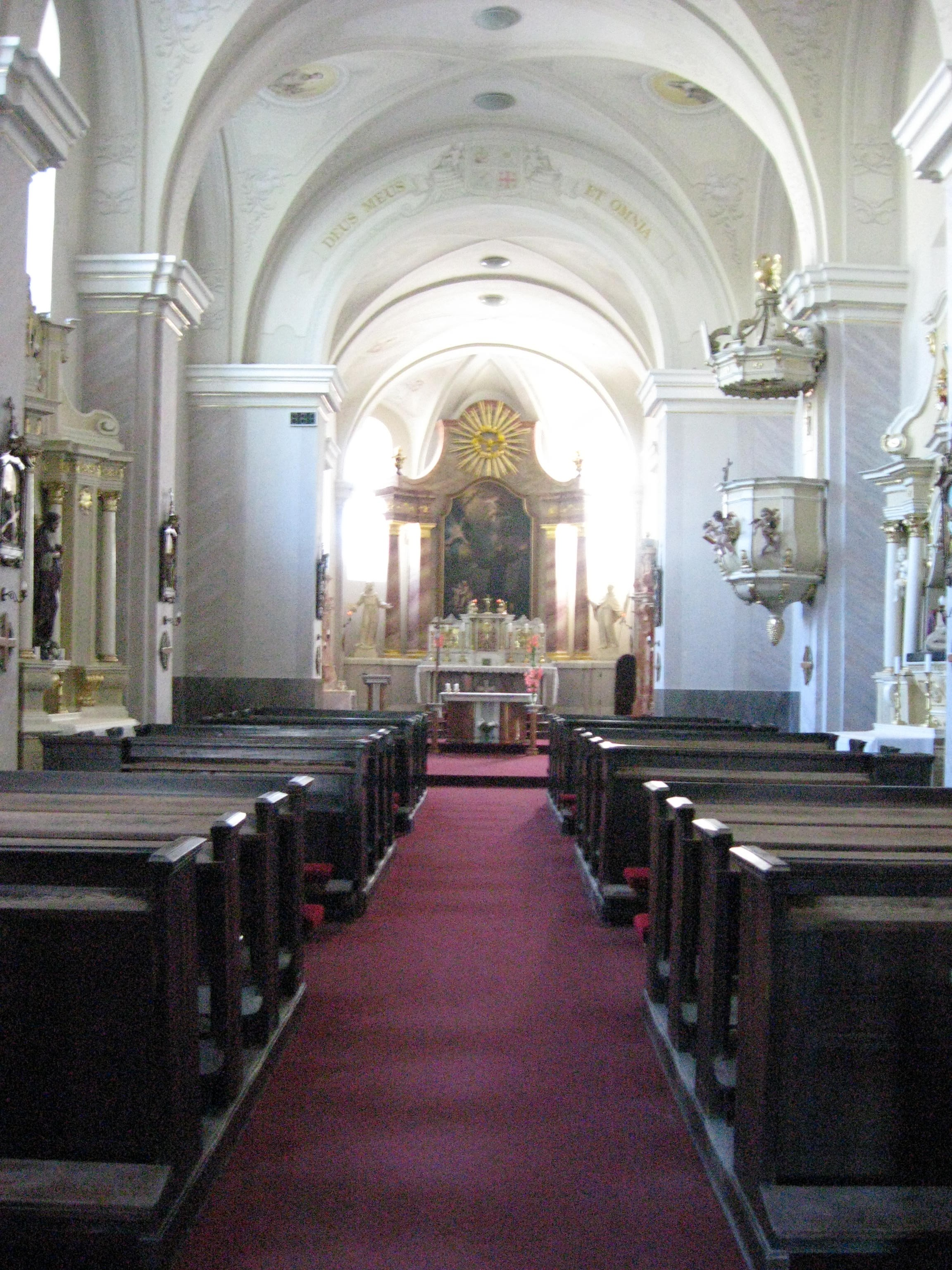 Interior Franciscian Church in Nové Zámky